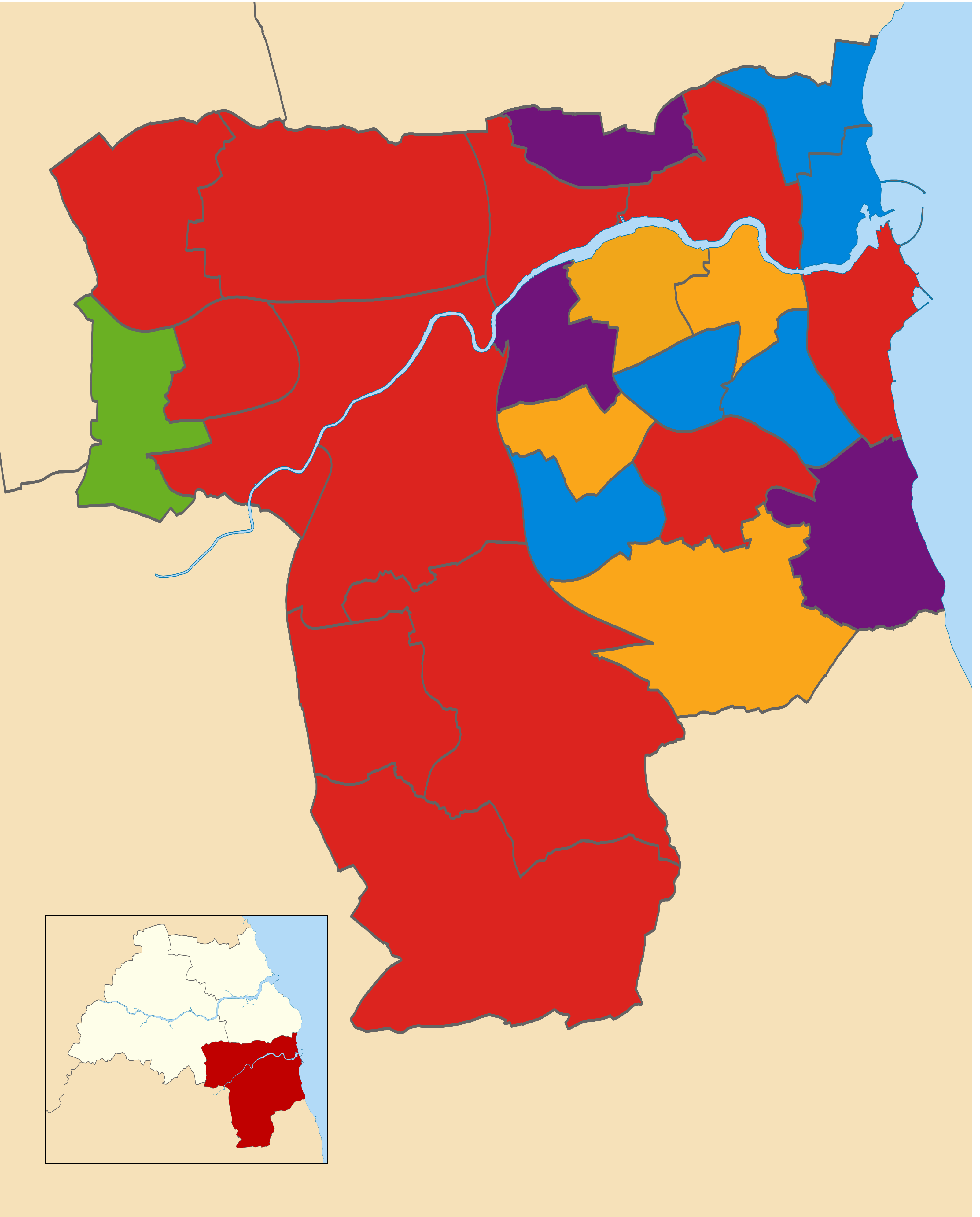 Map of Sunderland showing the results of the 2018 local election